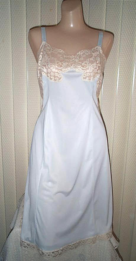 light blue full slip with lace